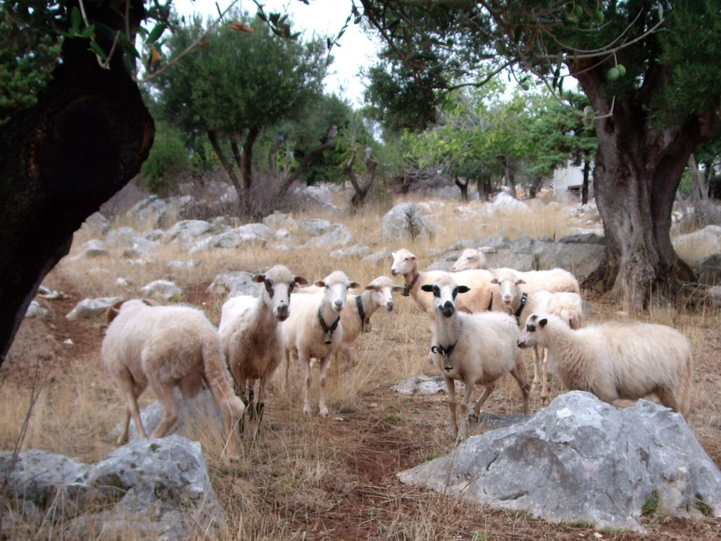 Copyright 2006 Michael R. Davis; Pentax Optio; picture taken near Lun, Croatia, Summer 2006. Provided to wikipedia under the GFDL license.